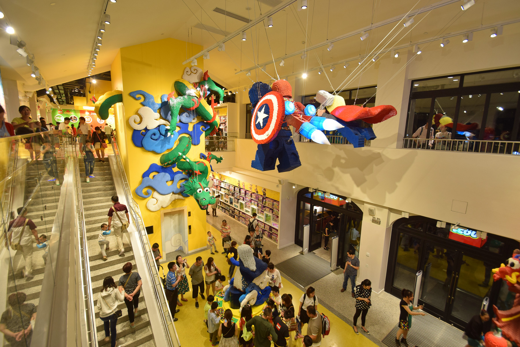 The largest LEGO Flagship Store in the world, Market Pace, Disney Town, Shanghai Disney Resort